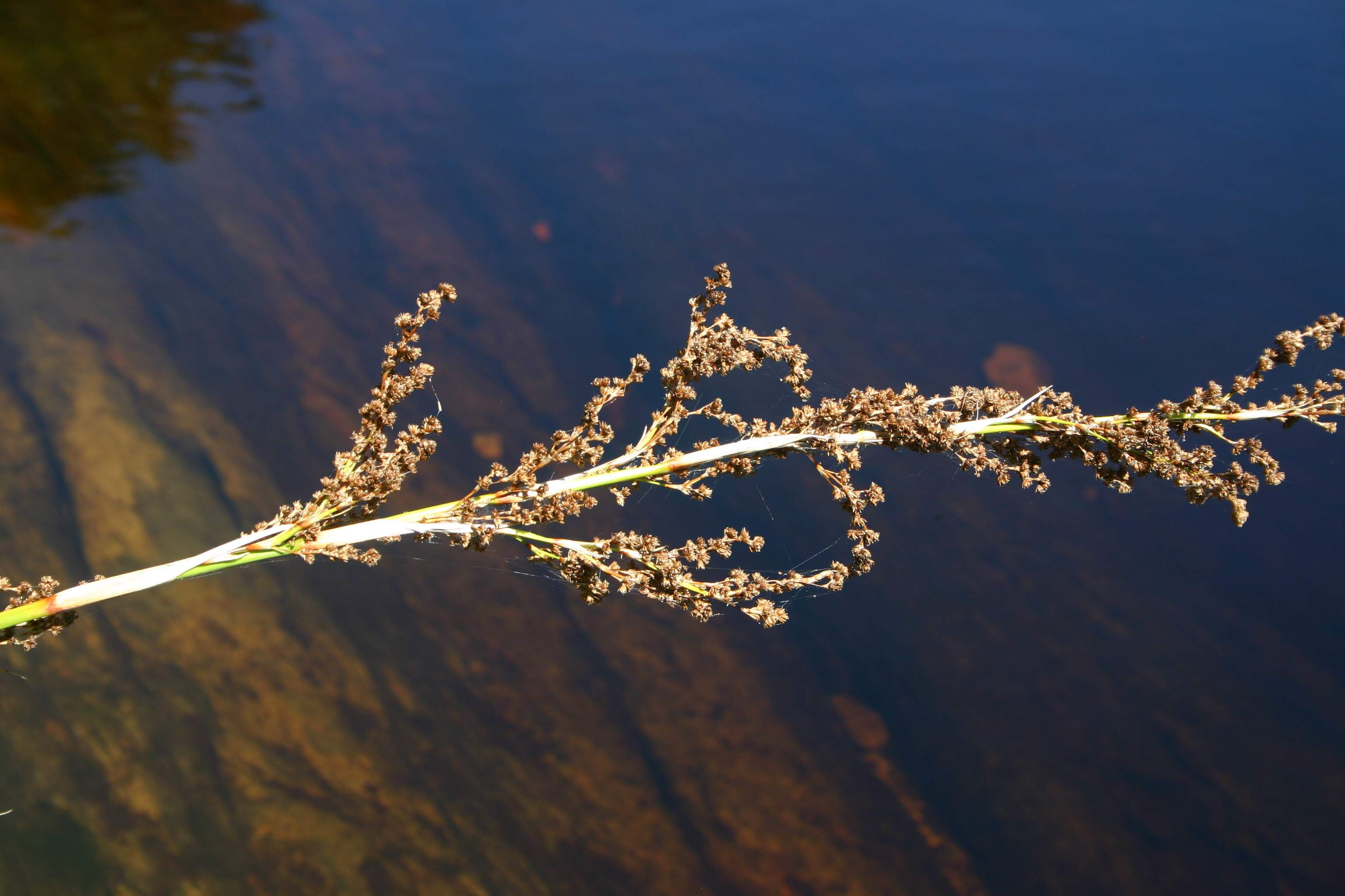 Prionium serratum on Bloukrans River (Garden Route)